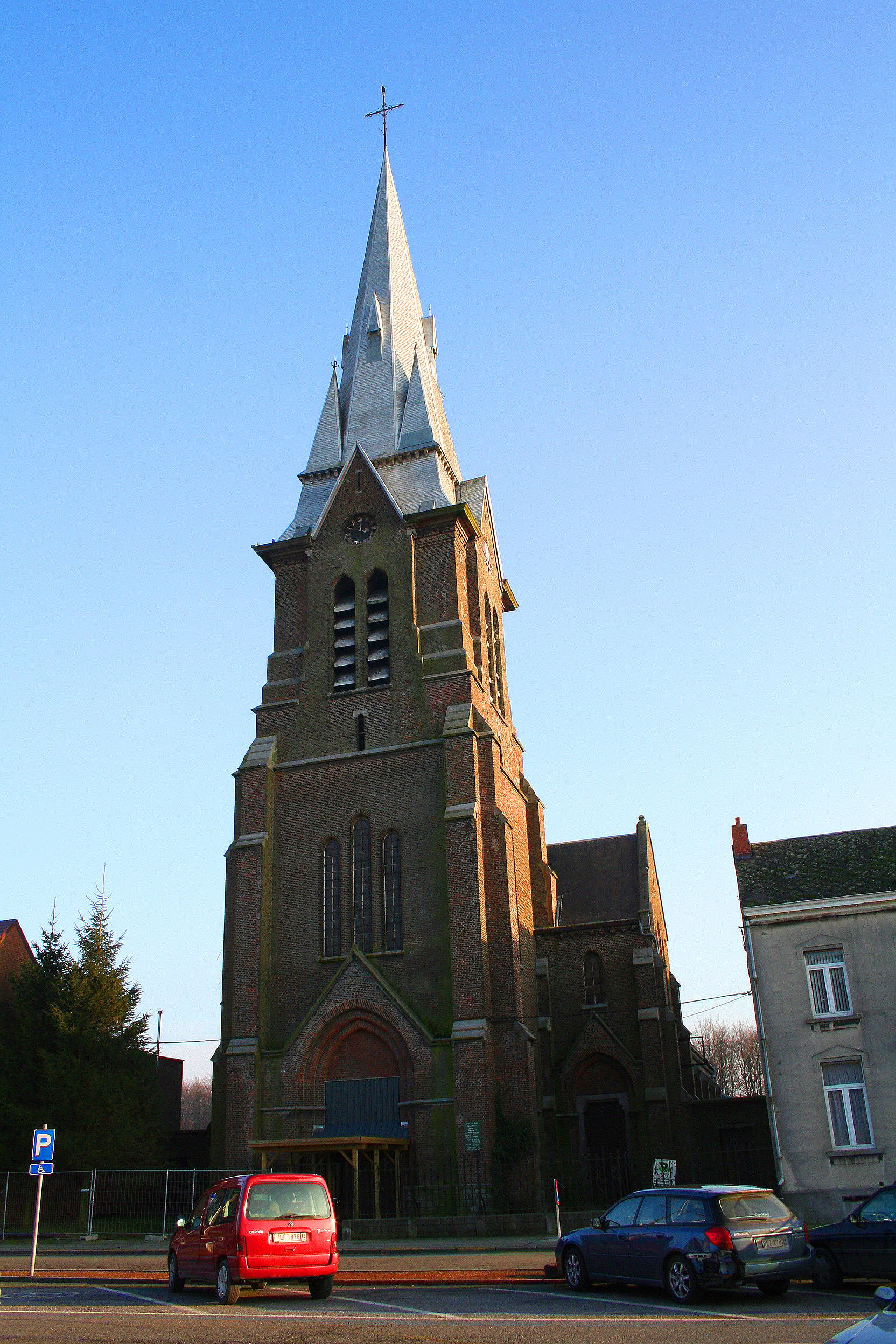 La Hestre, the Saint Peter church.